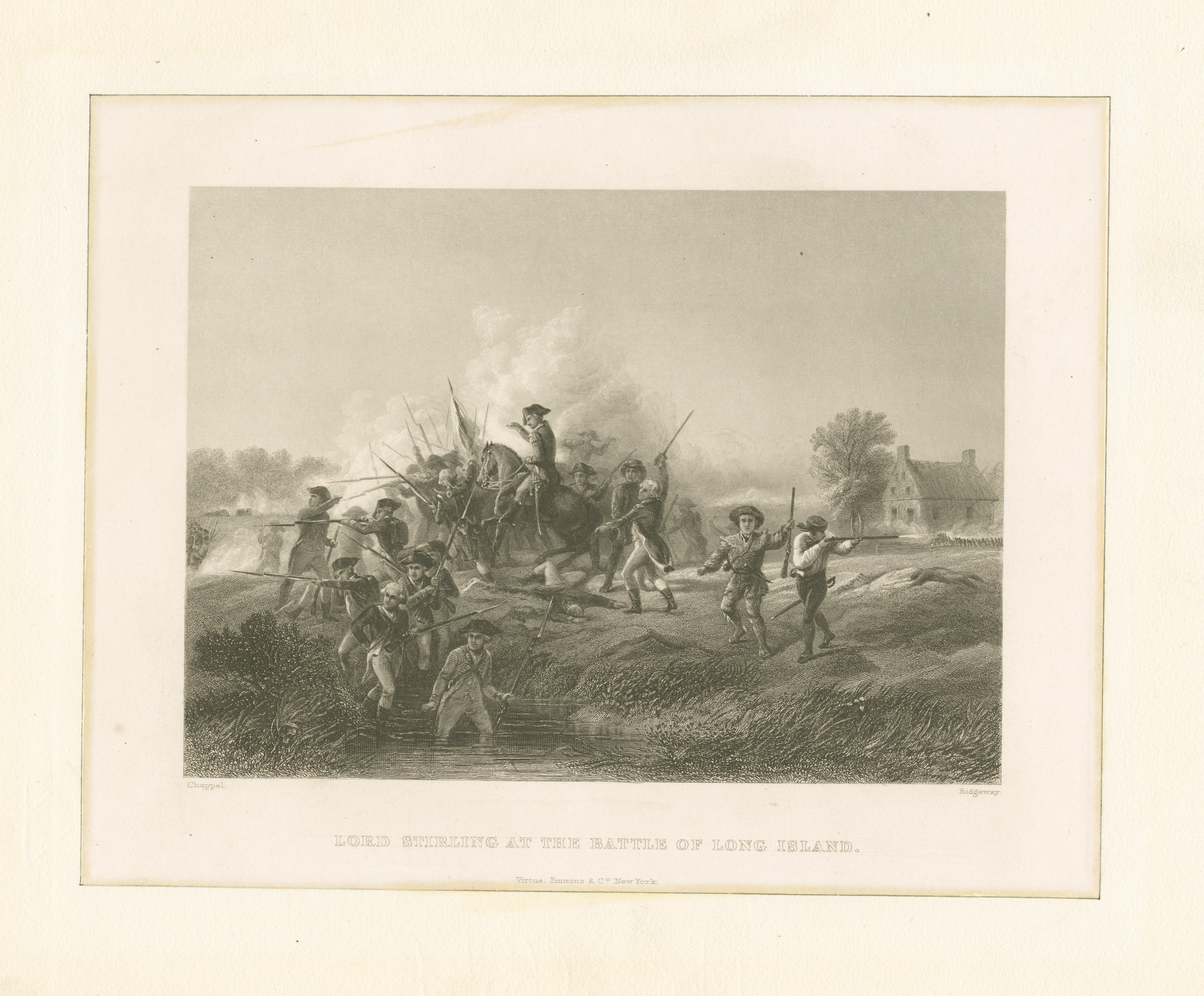 Includes photomechanical reproductions. Title from Calendar of Emmet Collection. EM10927 Statement of responsibility : Ridgeway